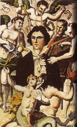 Imaginatory portrait of the Marquis de Sade